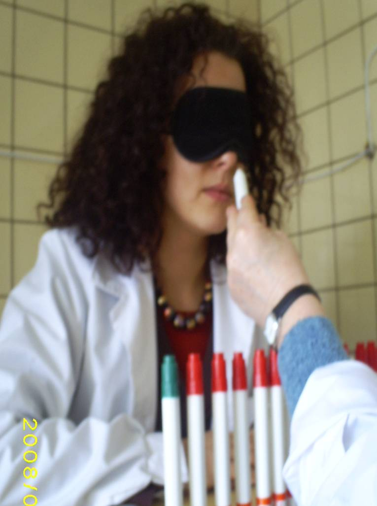 Sniffin’Sticks_test; The West-Pomeranian University of Technology, Szczecin (Poland)